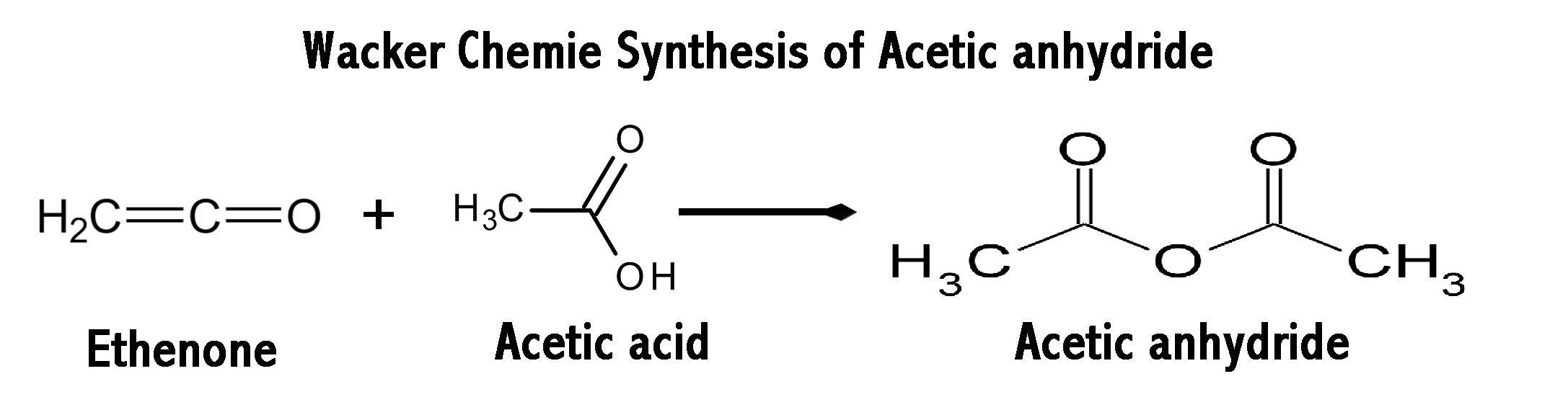 Acetic anhydride synthesis according to Wacker Chemie Process